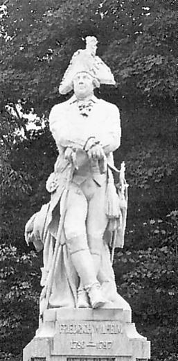 Monument group № 29 (detail) in the former Siegesallee in Berlin. The central monument commemorates Frederick William of Prussia (the fat good-for-nothing). Sculptor: Adolf Brütt. The statue was unveiled on 22 March 1900.